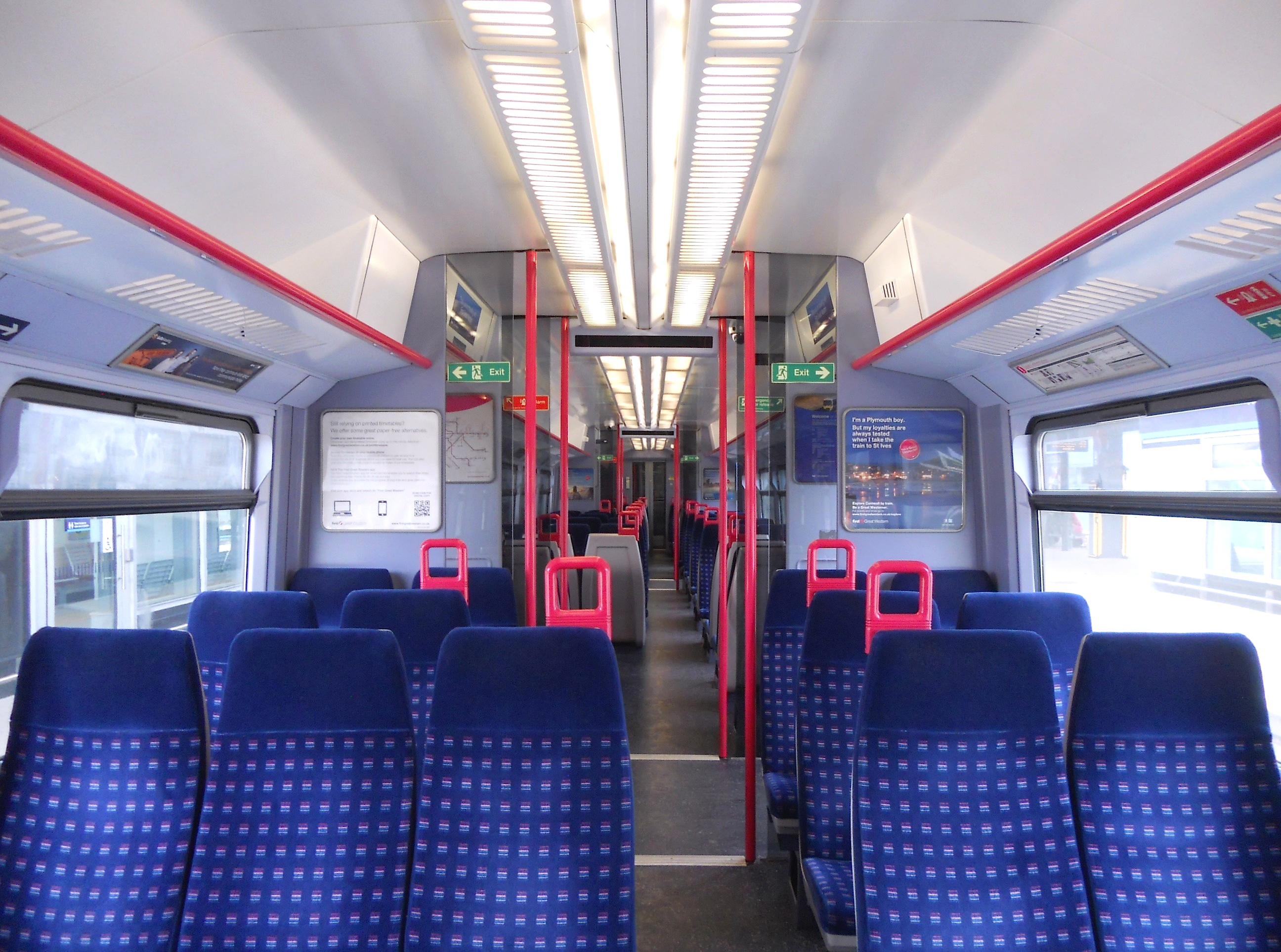 The interior of the refreshed Standard Class accommodation from the MSO vehicle of a First Great Western Class 165